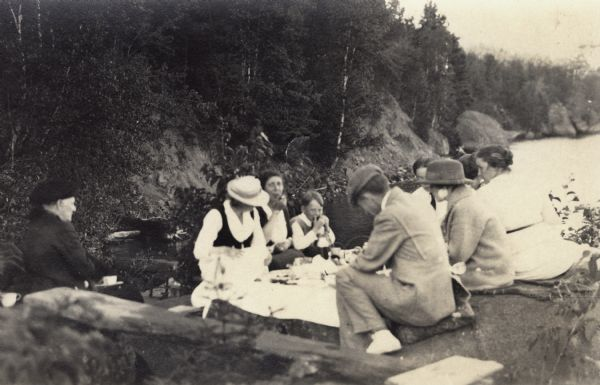 Group of people gathered for a rustic picnic on Bear Island, Apostle Islands, Lake Superior in 1916.